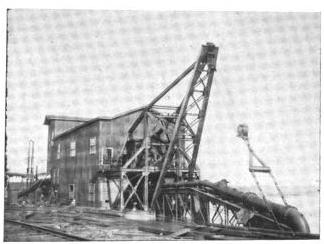 Quincy Sand Dredge #2 (then C & H Dredge #1), c. 1915 soon after construction